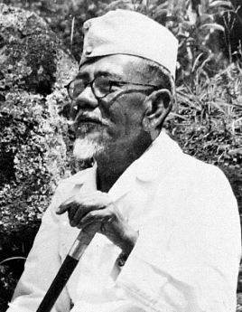 Haji Agus Salim in Dutch captivity, 1949